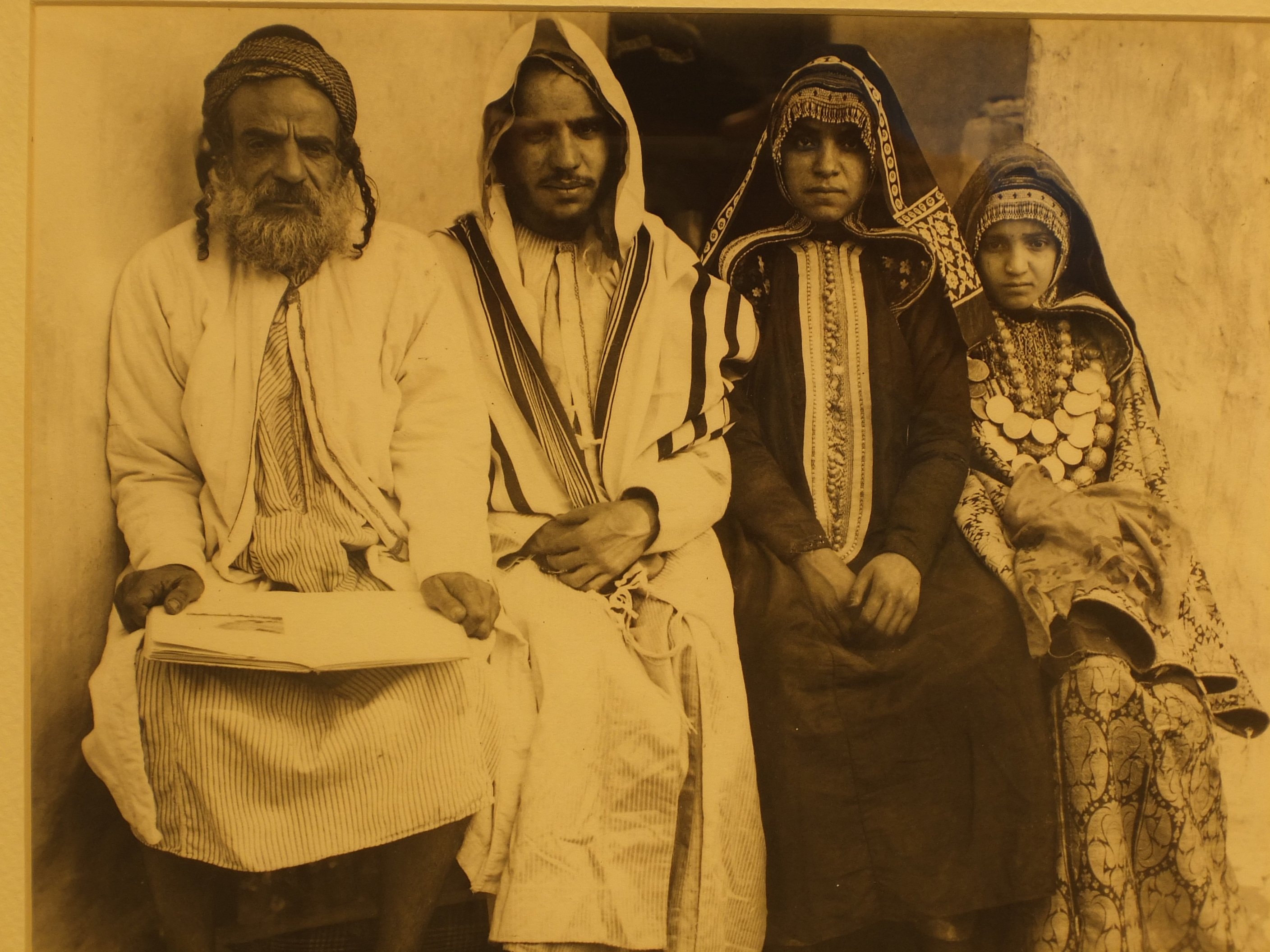 Family portrait, early 20th-century (San'a, Yemen)